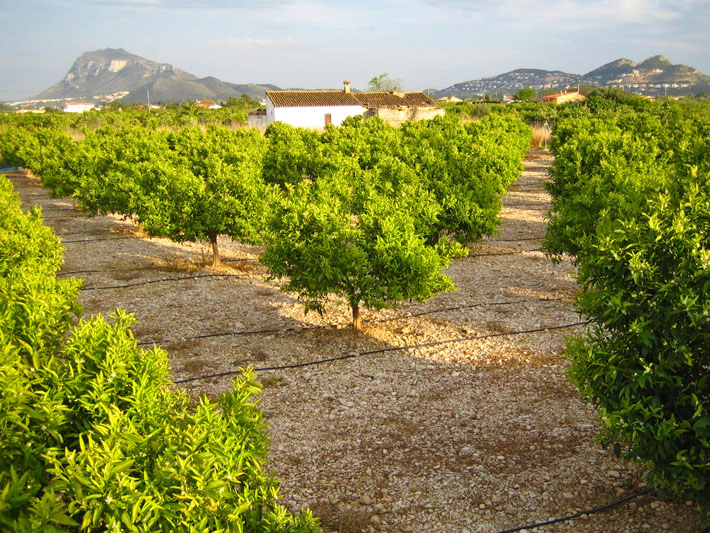 Orange tree orchards in El Verger, county Marina Alta, Region of Valencia, Spain.